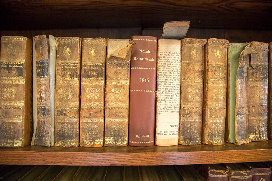 Høyesteretts hus, The Supreme Court of Norway, at Open Doors 2016